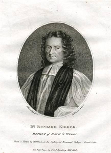 Dr. Richard Kidder, Bishop of Bath and Wells, contemporary engraving